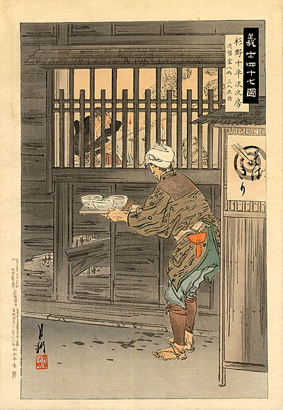 Ronin are masterless samurai. Chushingura is the true story of 47 samurai who became masterless in 1701, after their lord had been forced to commit ritual suicide (seppuku) for assaulting a court official who had insulted him. They avenged him by killing the court official after patiently planning for over a year. They were themselves then forced to commit seppuku.